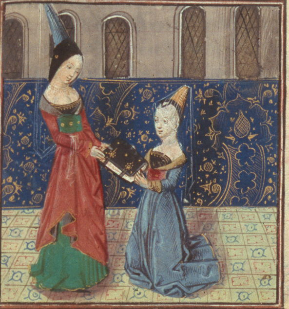 Christine de Pizan presents her book to Margaret of Burgundy. An illustration from The Treasure of the City of Ladies. Paris BN fr. 1177, folio 114 c. 1475.